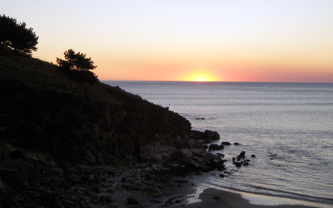 sunset on the beach in Lebu (2010).